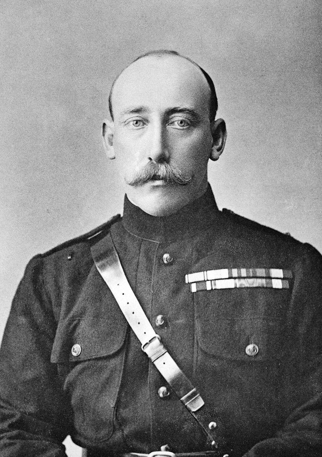 Prince Christian Victor of Schleswig-Holstein in miliary undress uniform. Probably photographed in or before leaving for South Africa.